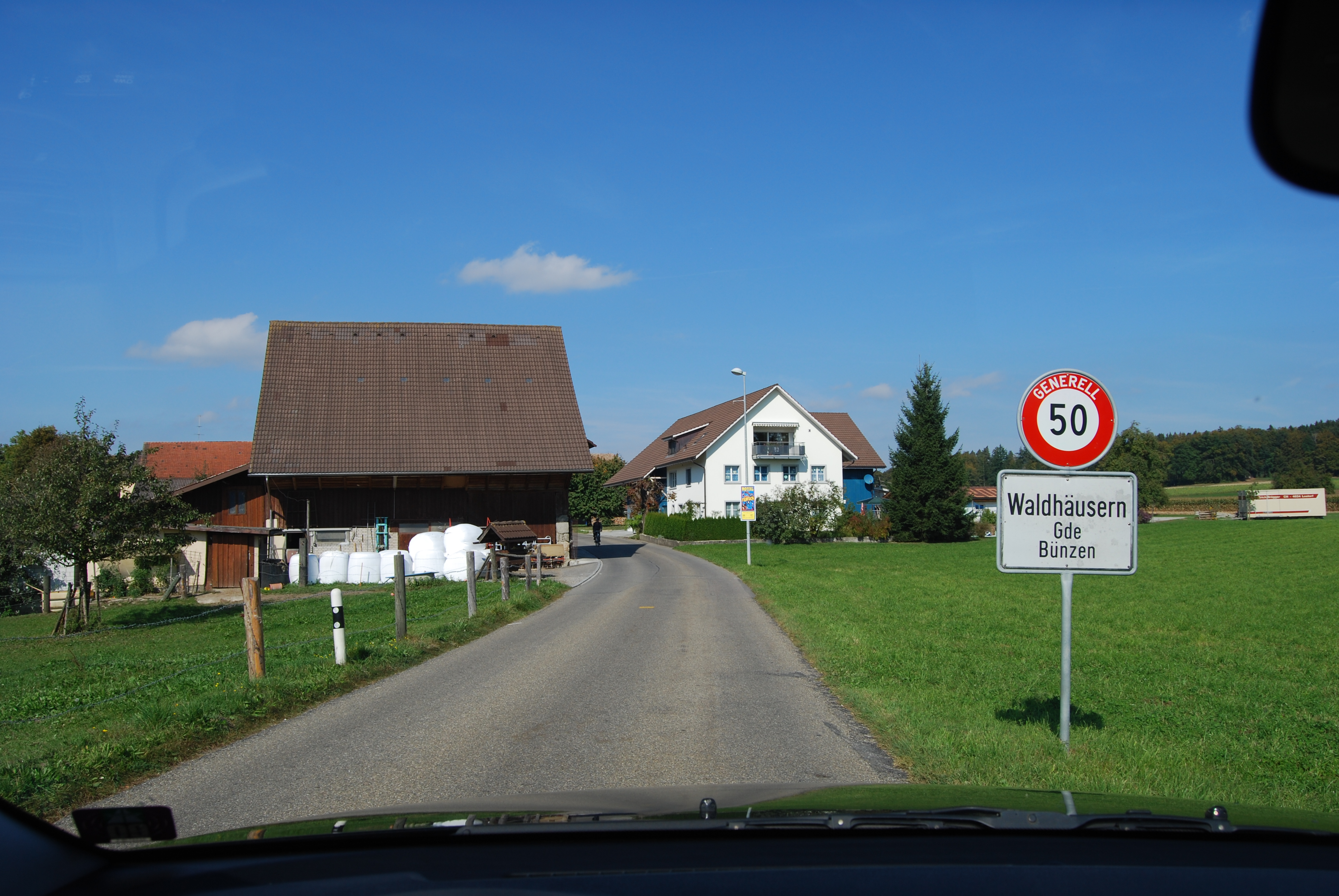 Waldhäusern, municipality of Bünzen, canton of Aargau, SwitzerlandEsperanto: Waldhäusern, komunumo Bünzen, Kantono Argovio, Svislando